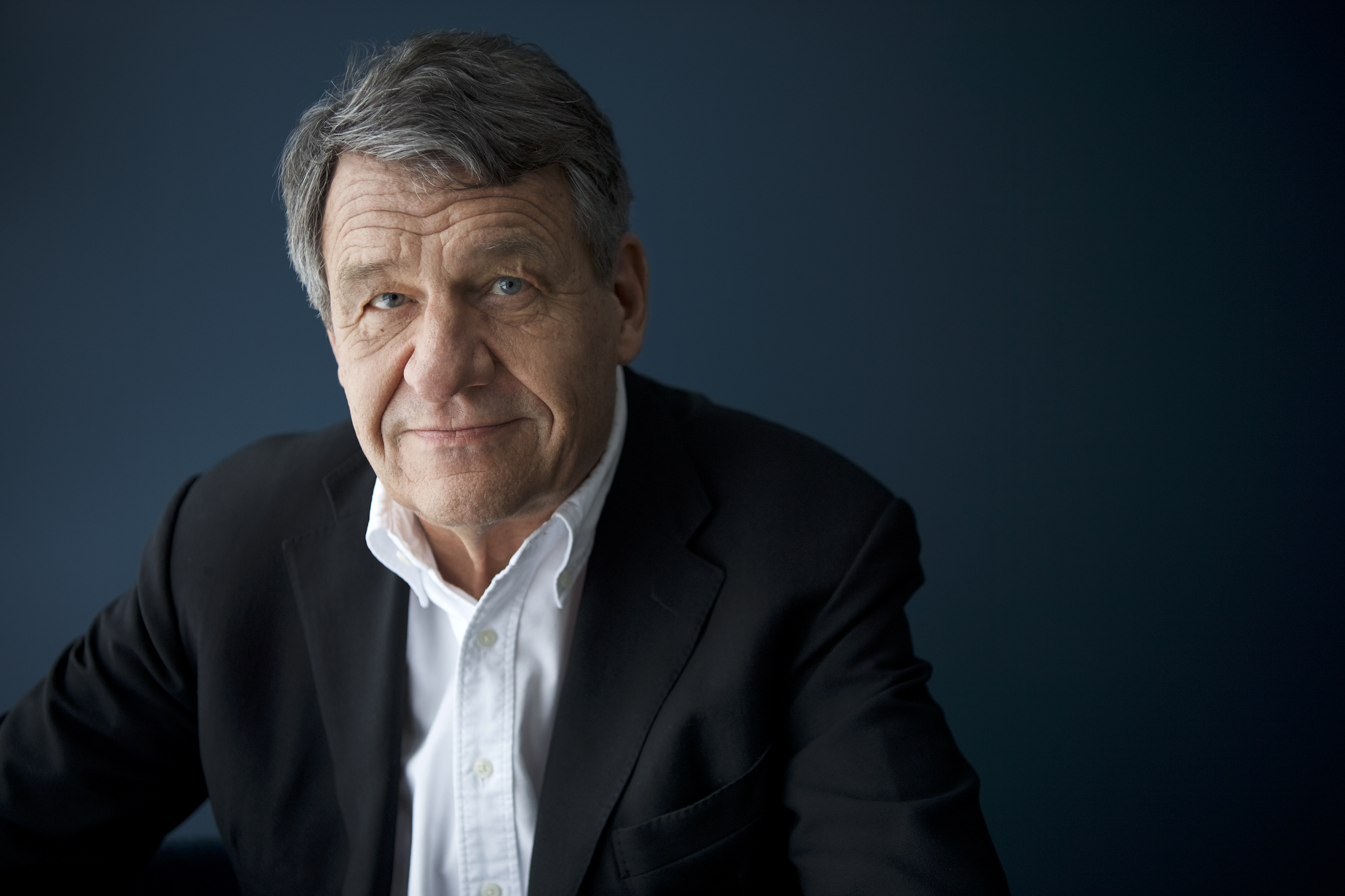 Cato Schiøtz, Norwegian lawyer.